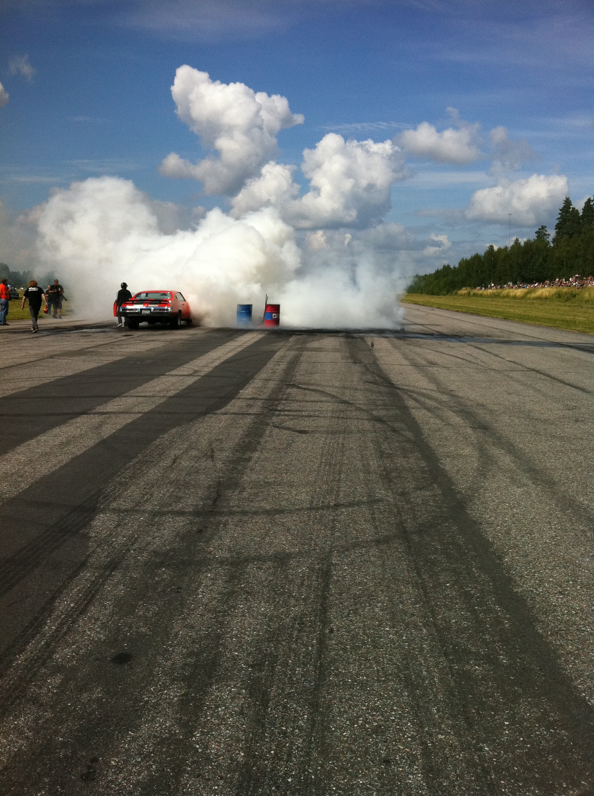 Car taking off in a drag race in Sweden